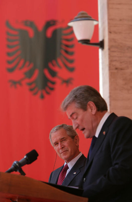 George W. Bush and Sali Berisha during a joint press conference in Tirana, Albania